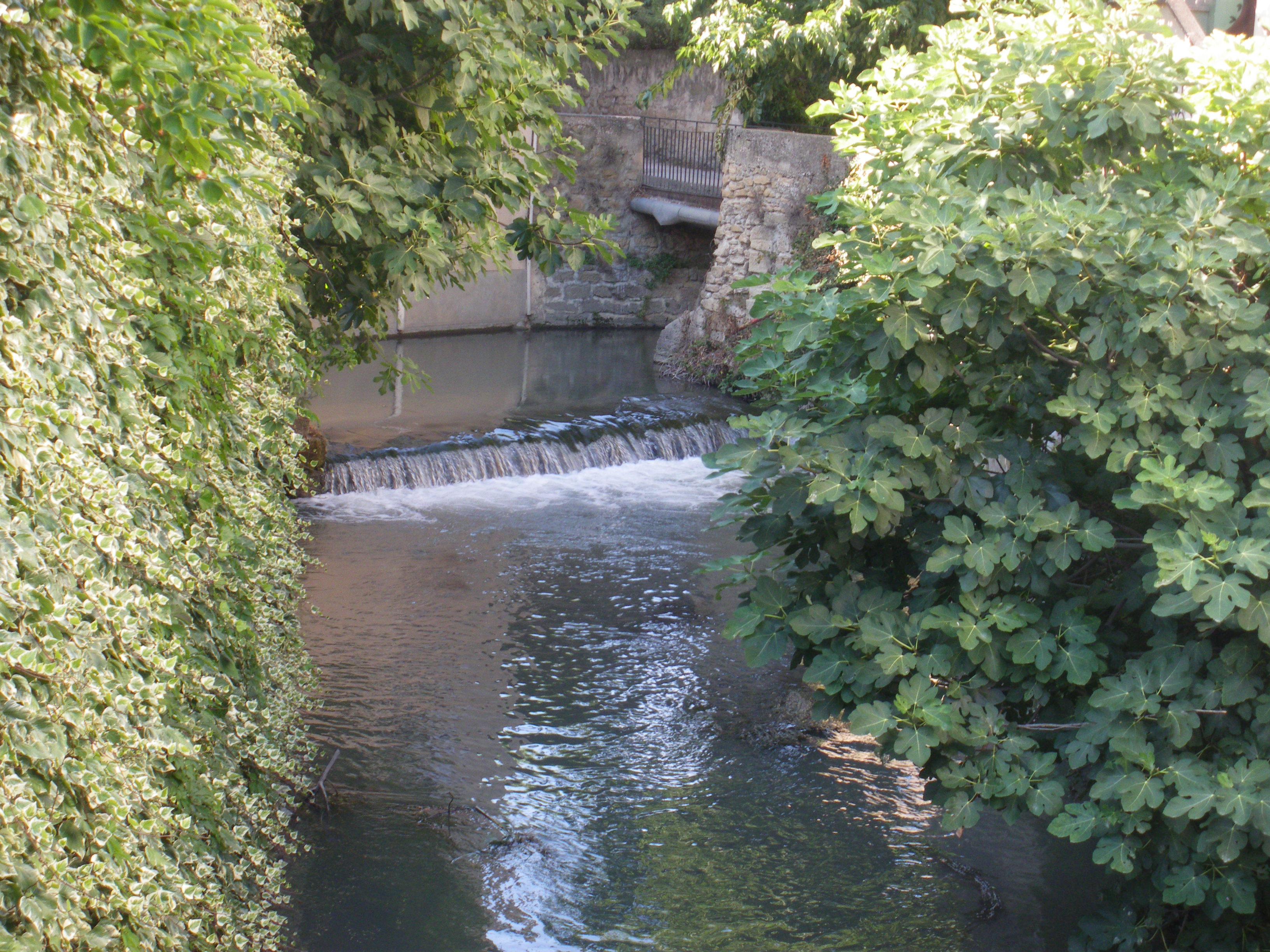 Seille River, Bédarrides, Vaucluse France